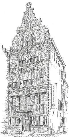 Drawing 'Dit is in Bethlehem'